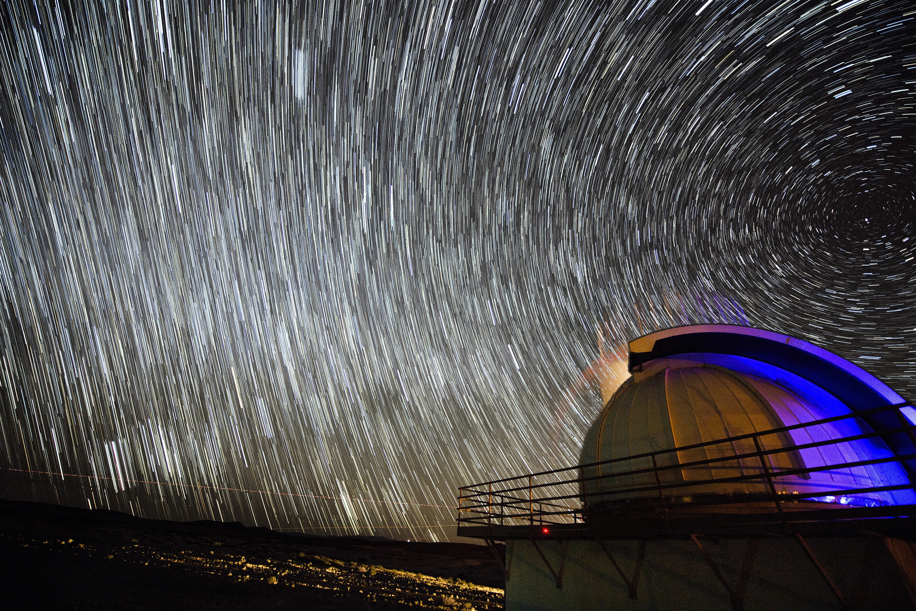 The Ground-Based Electro-Optical Deep Space Surveillance System is responsible for tracking thousands of objects in space. The telescopes fall under the 21st Space Wing and is positioned at White Sands Missile Range, New Mexico. Here, 216 photos captured over a 90 minute period are layered over one another, making the star trails come to life. (U.S. Air Force photo illustration by Tech. Sgt. David Salanitri)